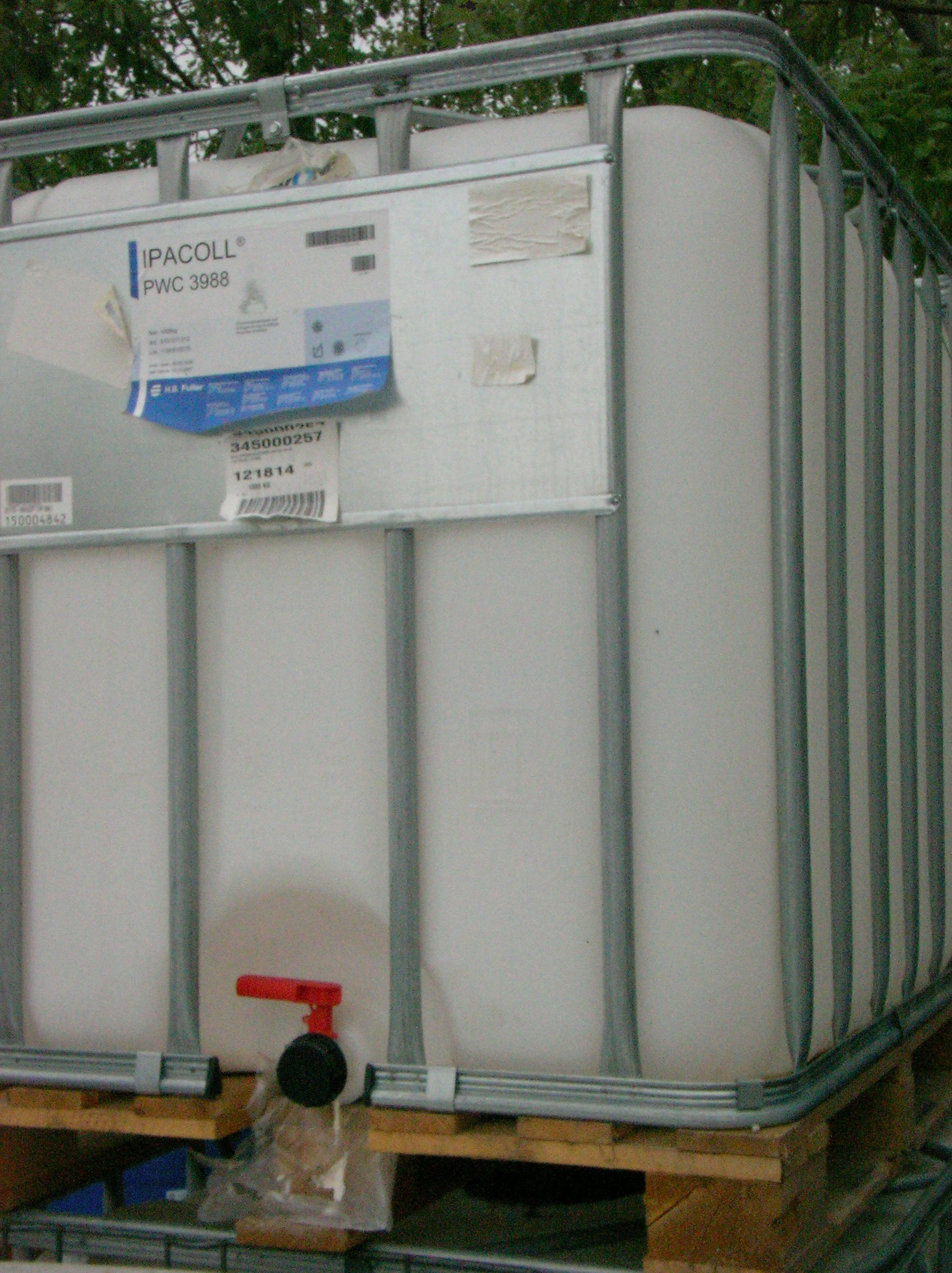 a random IBC container, containing glue